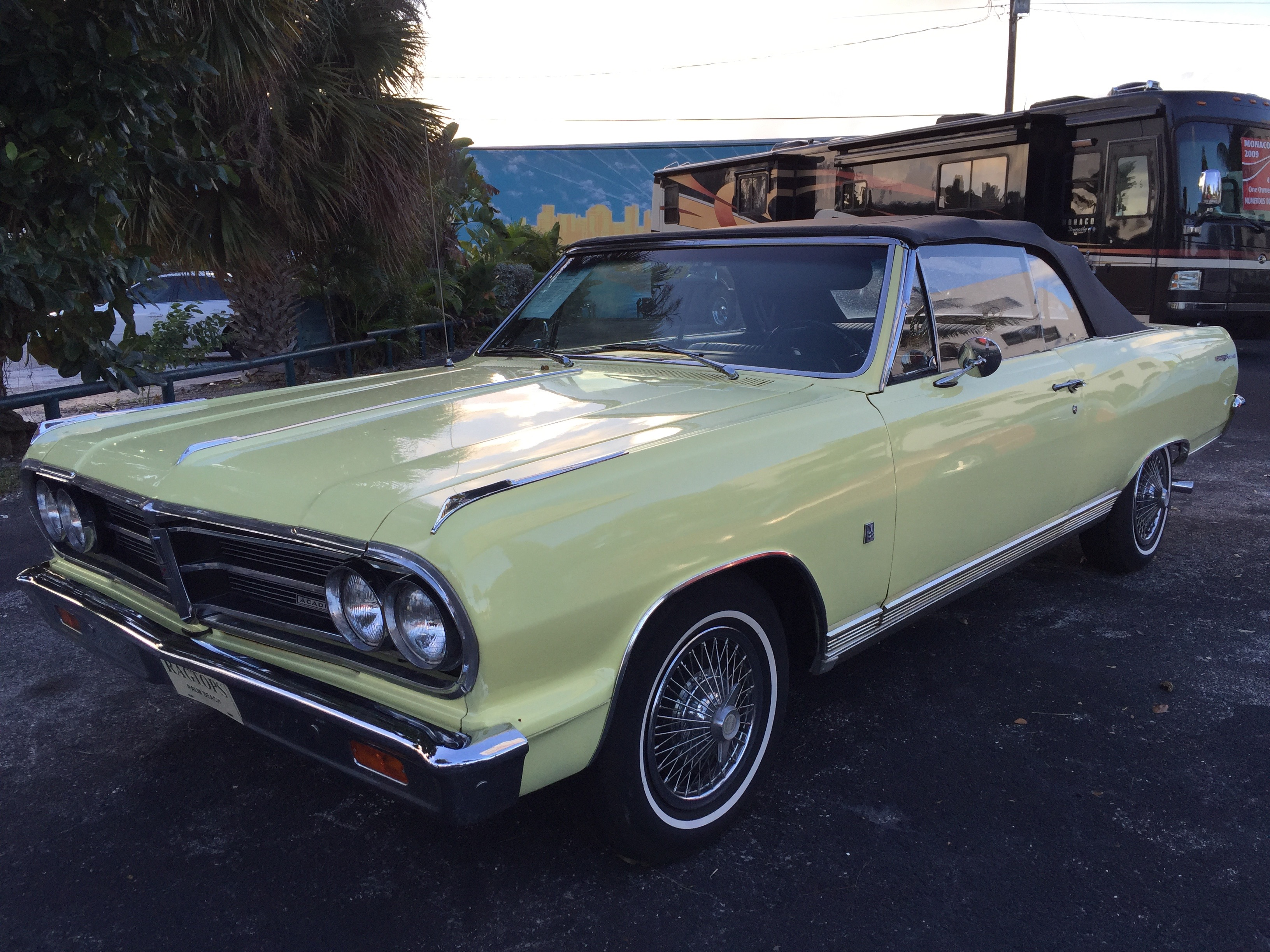 1964 Acadian Sport Beaumont convertible in yellow with black top and interior. A total of 322 Acadian Sport Beaumonts were produced in 1964, of which only 128 were convertibles. This model is the Canadian version of the Chevrolet Chevelle and has a 283 V8 engine with an automatic transmission.